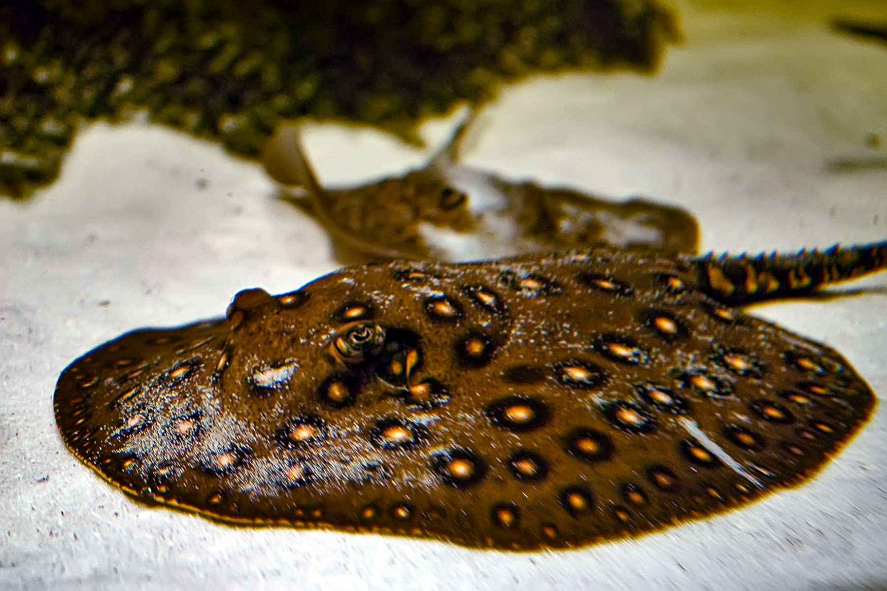 The Ocellate River Stingray, Potamotrygon motoro, inhabits the Amazon and other rivers in South America; Berlin Zoological Garden and Aquarium